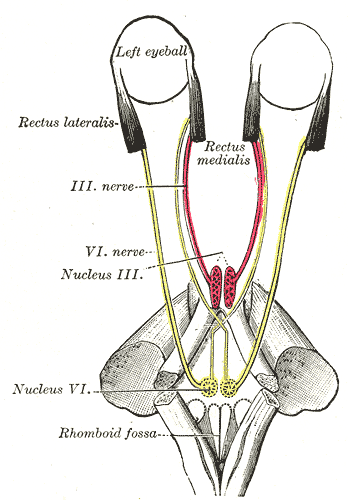 Figure showing the mode of innervation of the Recti medialis and lateralis of the eye (after Duval and Laborde).